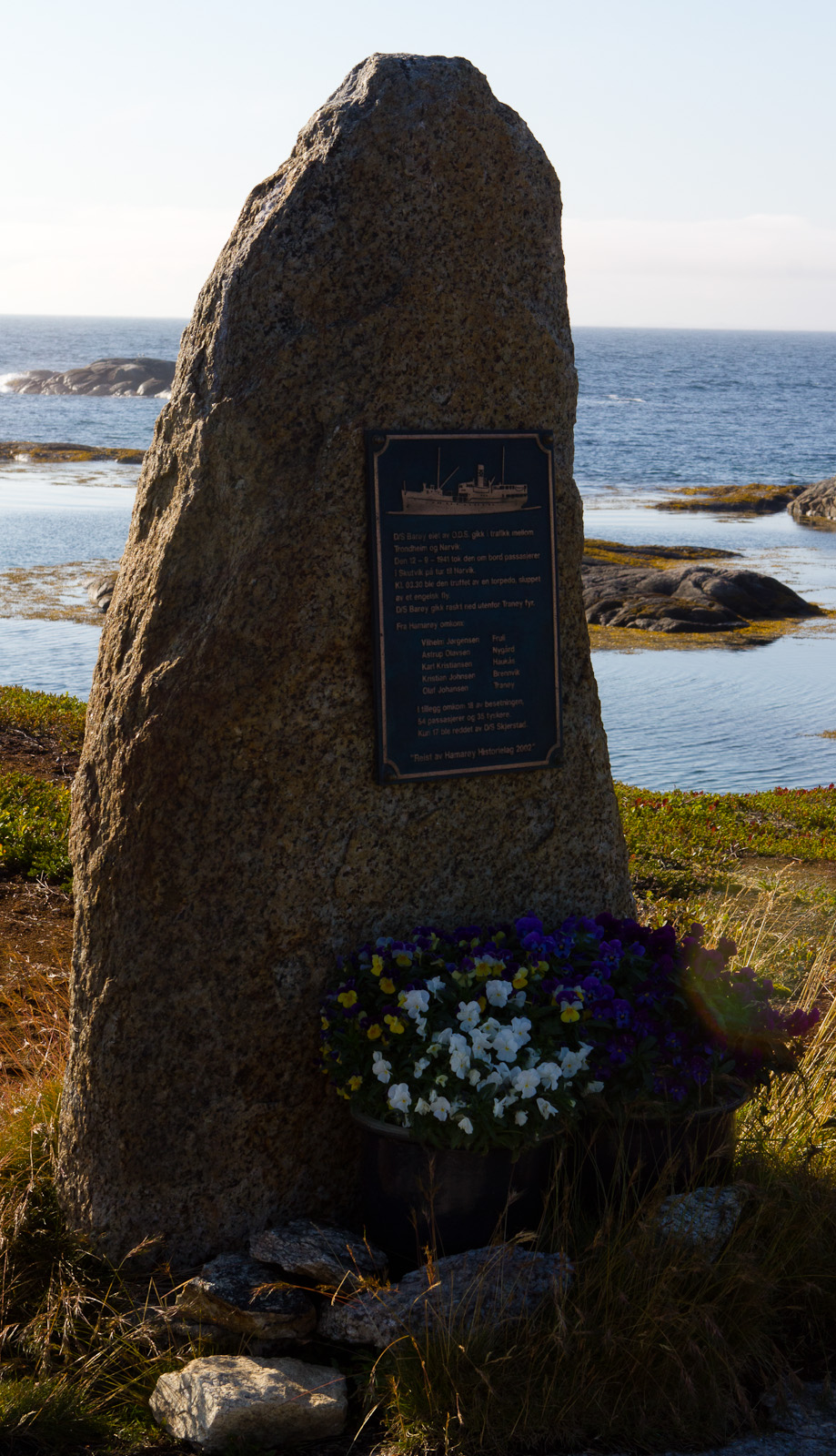 DS Barøy memorial